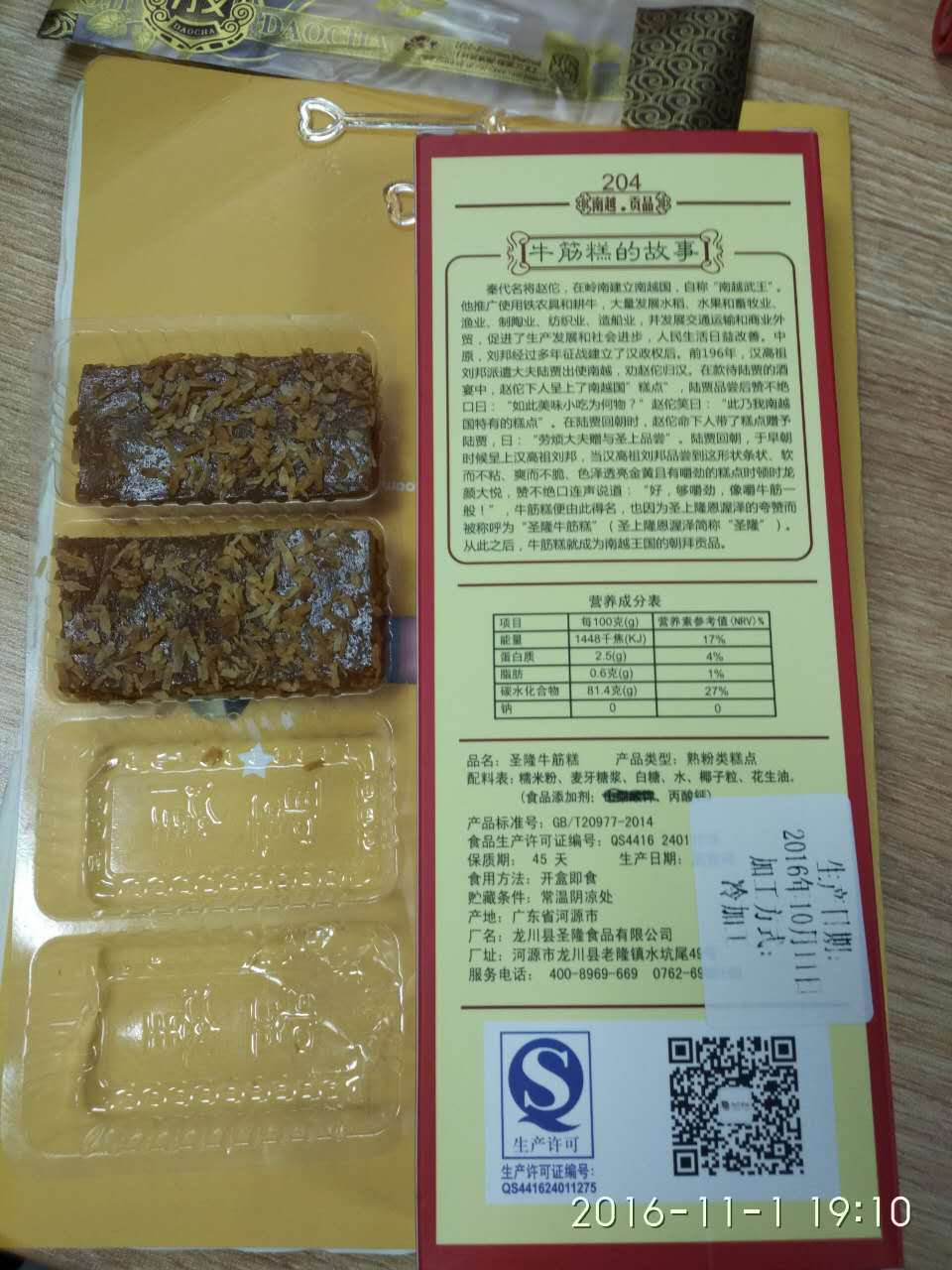 a photo of cowhells cake